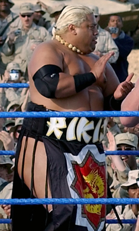 Solofa Fatu, one of the World Wrestling Entertainment (WWE) superstars performing for the Coalition troops at Camp Victory, Baghdad International Airport (BIAP), Iraq (IRQ) during Operation IRAQI FREEDOM.